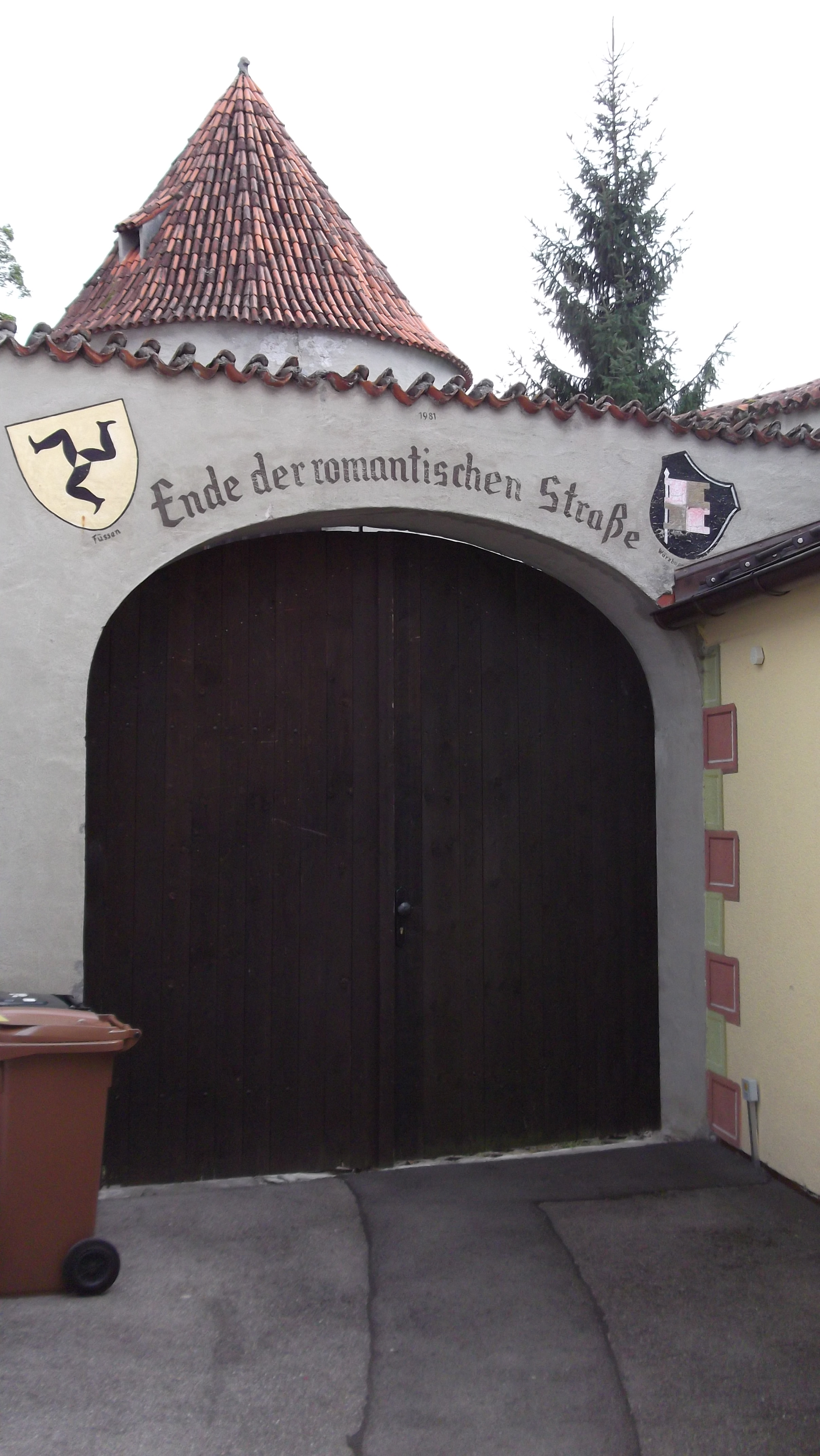 End of the Romantic Road at Abbay St. Stephan in Fuessen